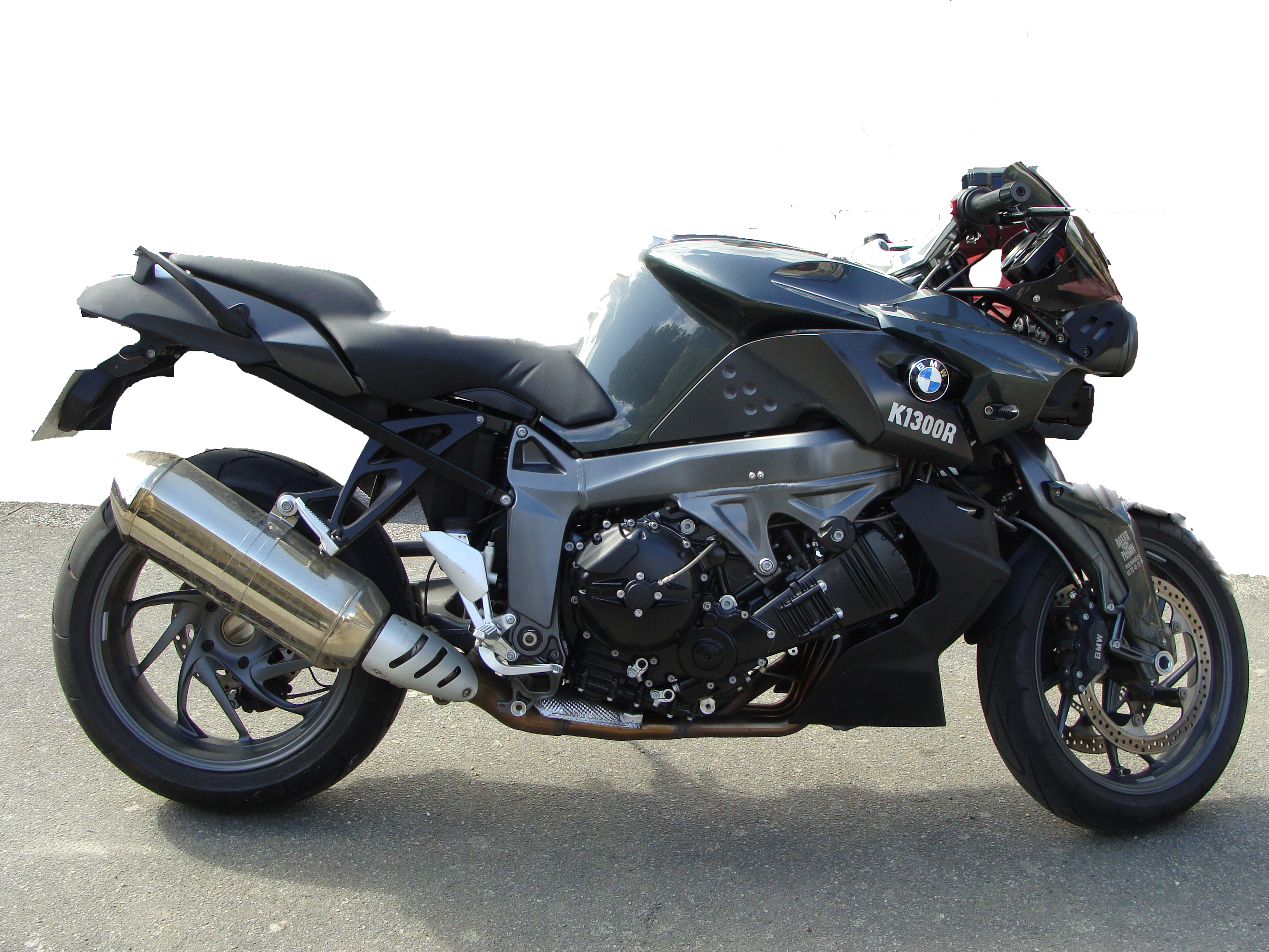 A parked black BMW K1300R in Rennes, France... Near "Le Thabor" Park in May 1 2009